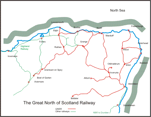 System map of GNSR